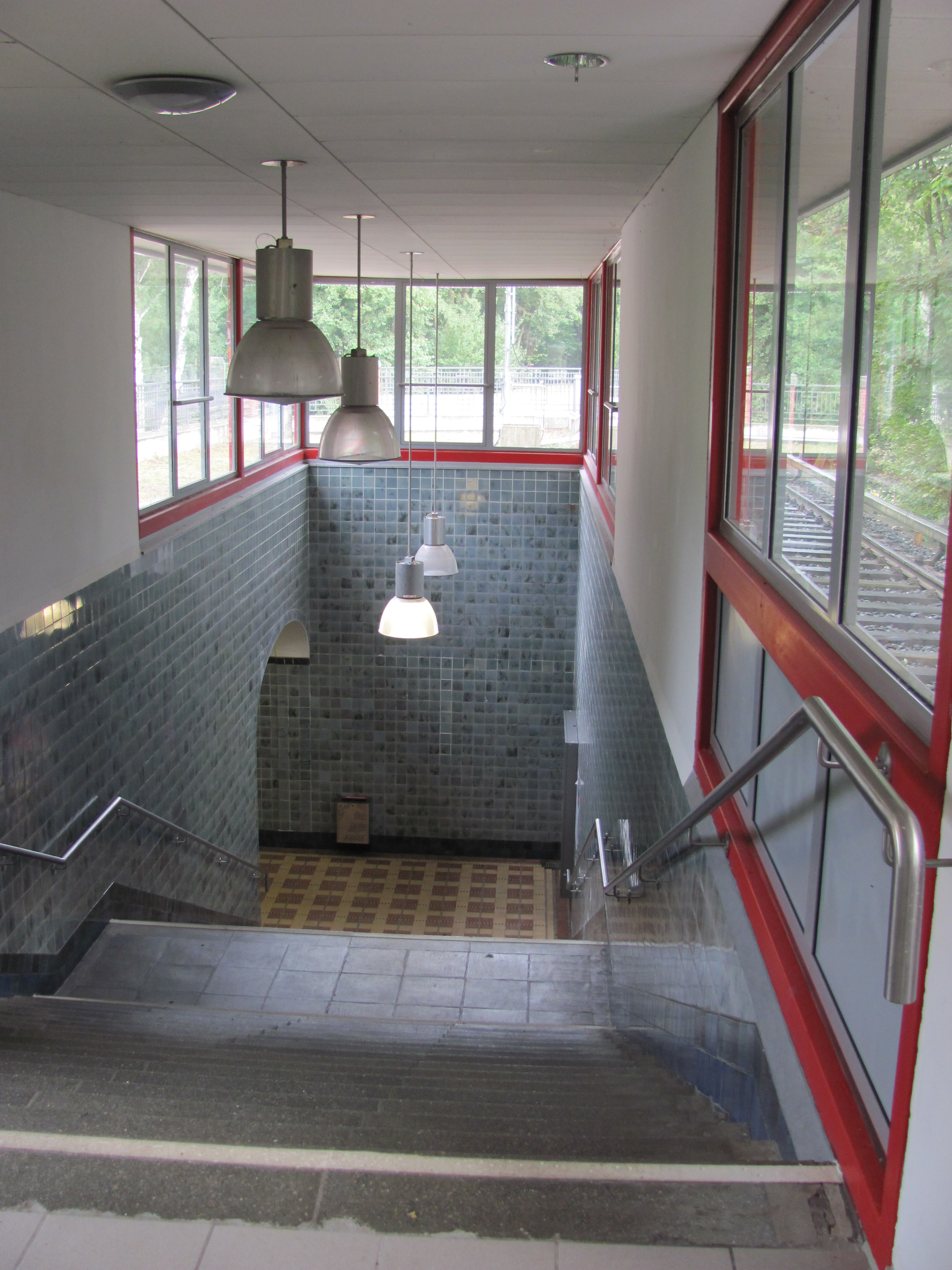 U-Bahn station Ahrensburg Ost